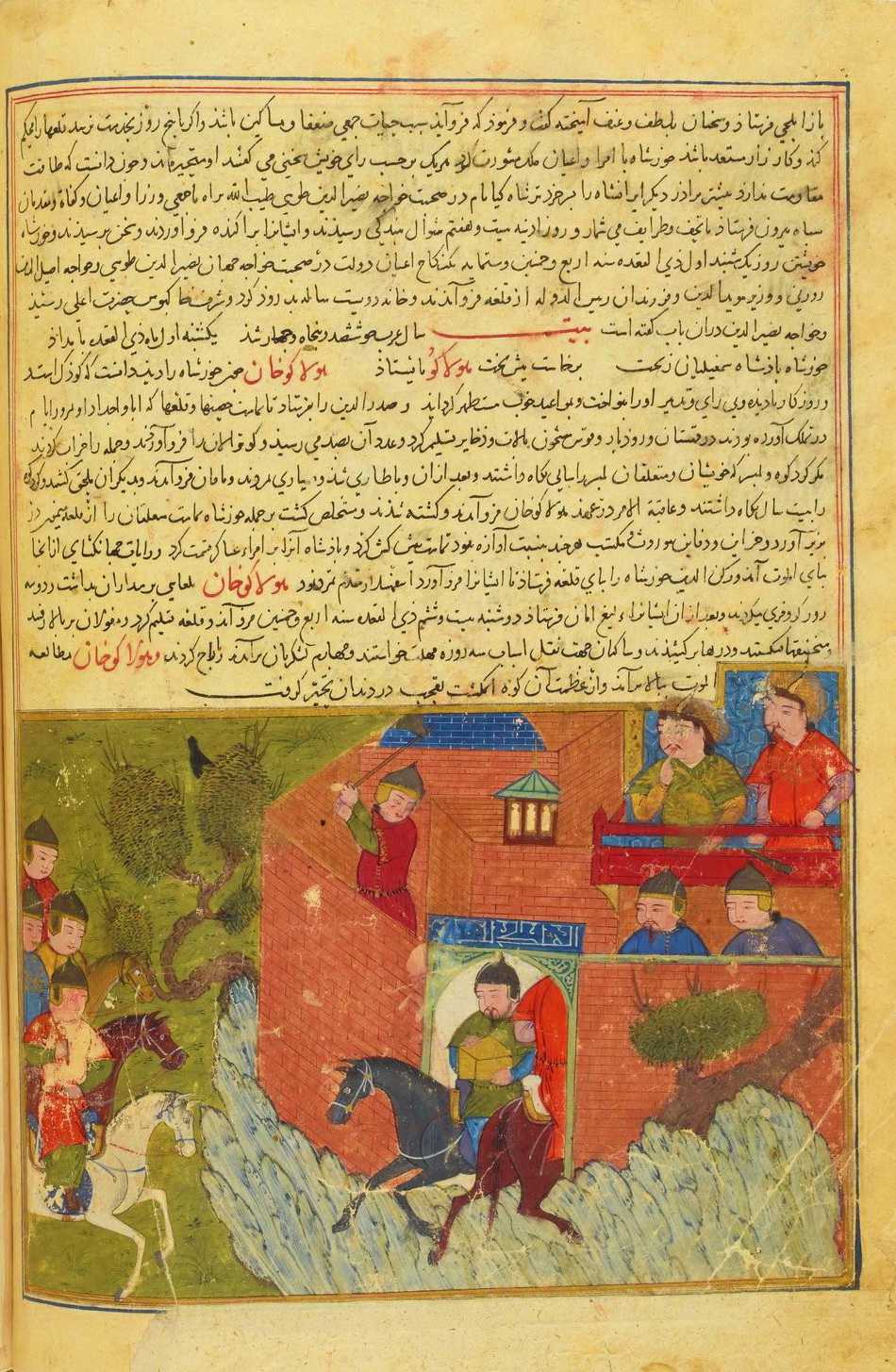 Siege of Alamut (1256)